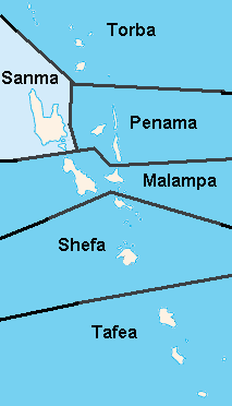 Province of Sanma (Vanuatu)